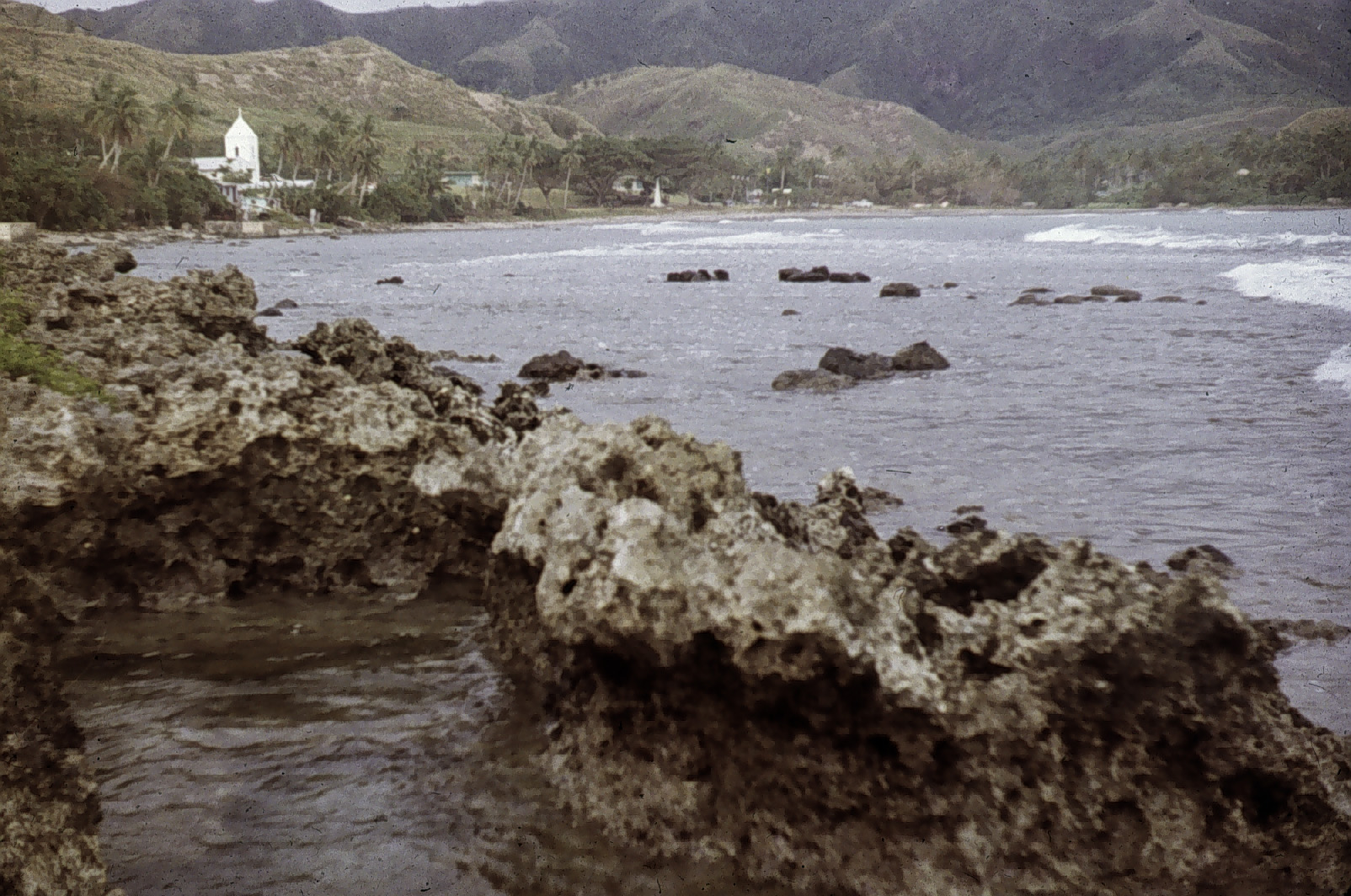 Magellan landing site in Umatac Bay. Umatac Bay, Guam, Marianas Islands.